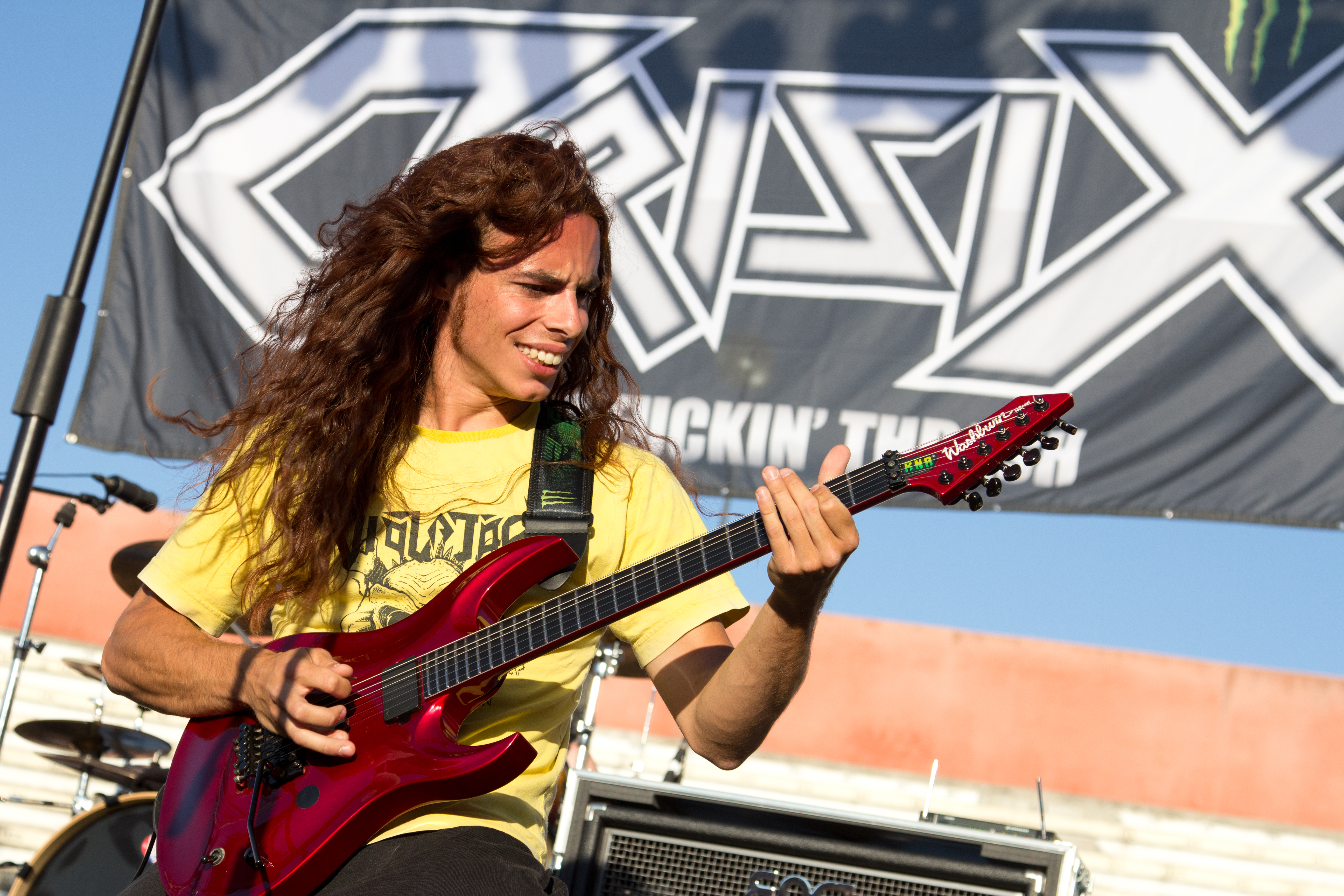 Spanish metal band Crisix at Asaco Metal Fest 2013, Parla, Spain.